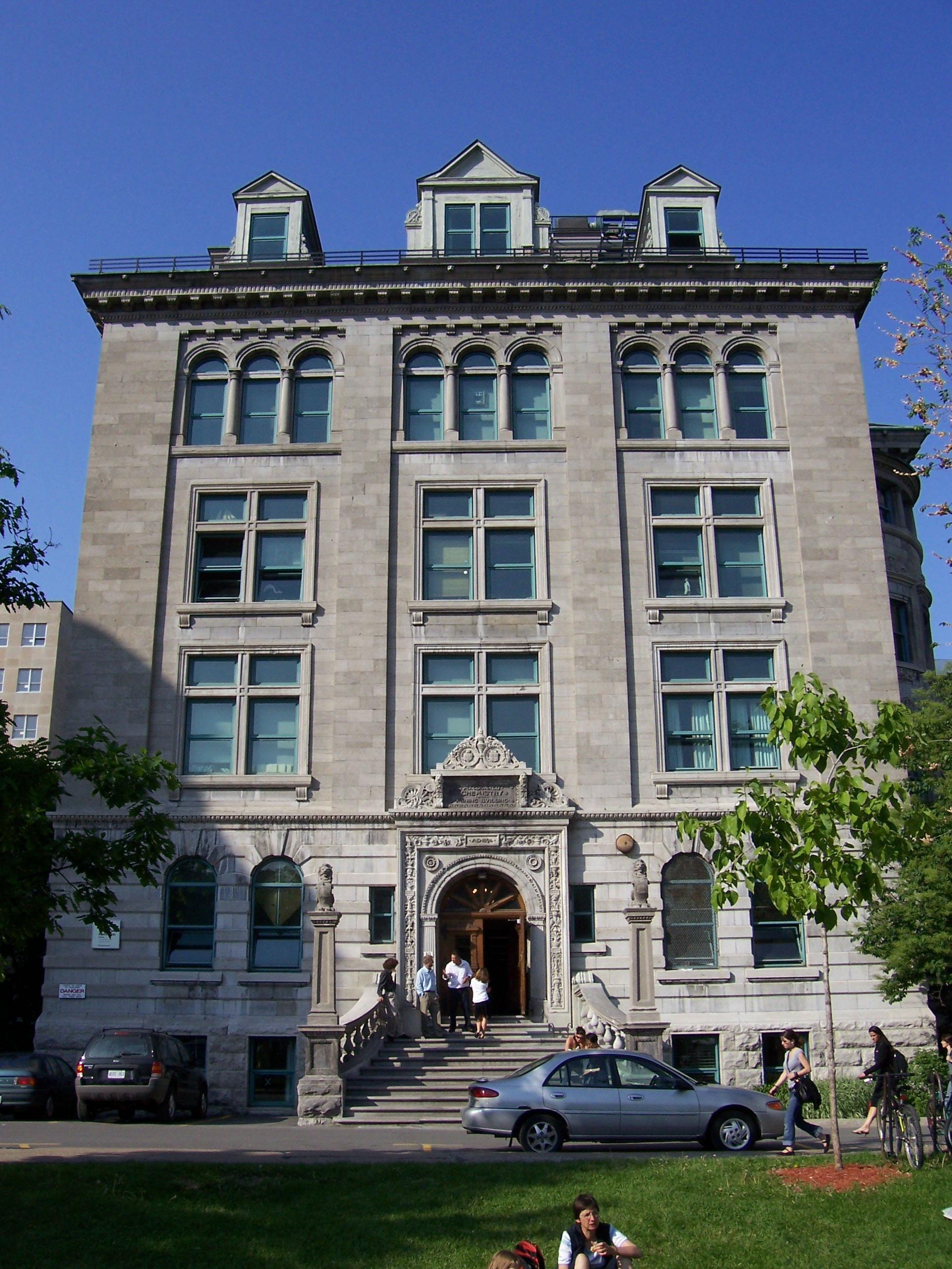 Photo of the Macdonald-Harrington Building, home to the School of Architecture (formerly Macdonald Chemistry Building) on the McGill University downtown campus, in Montreal, Quebec, Canada. Photo taken by en.wikipedia user Beltz.